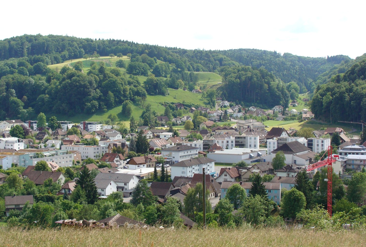 Gränichen